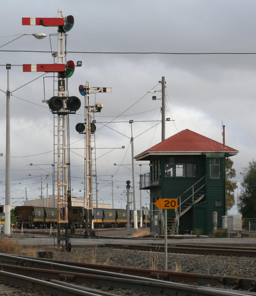 Mechanical semaphore signalling, signal box in background. North Geelong, Victoria, Australia.